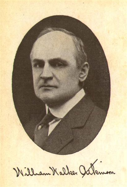 William Walker Atkinson